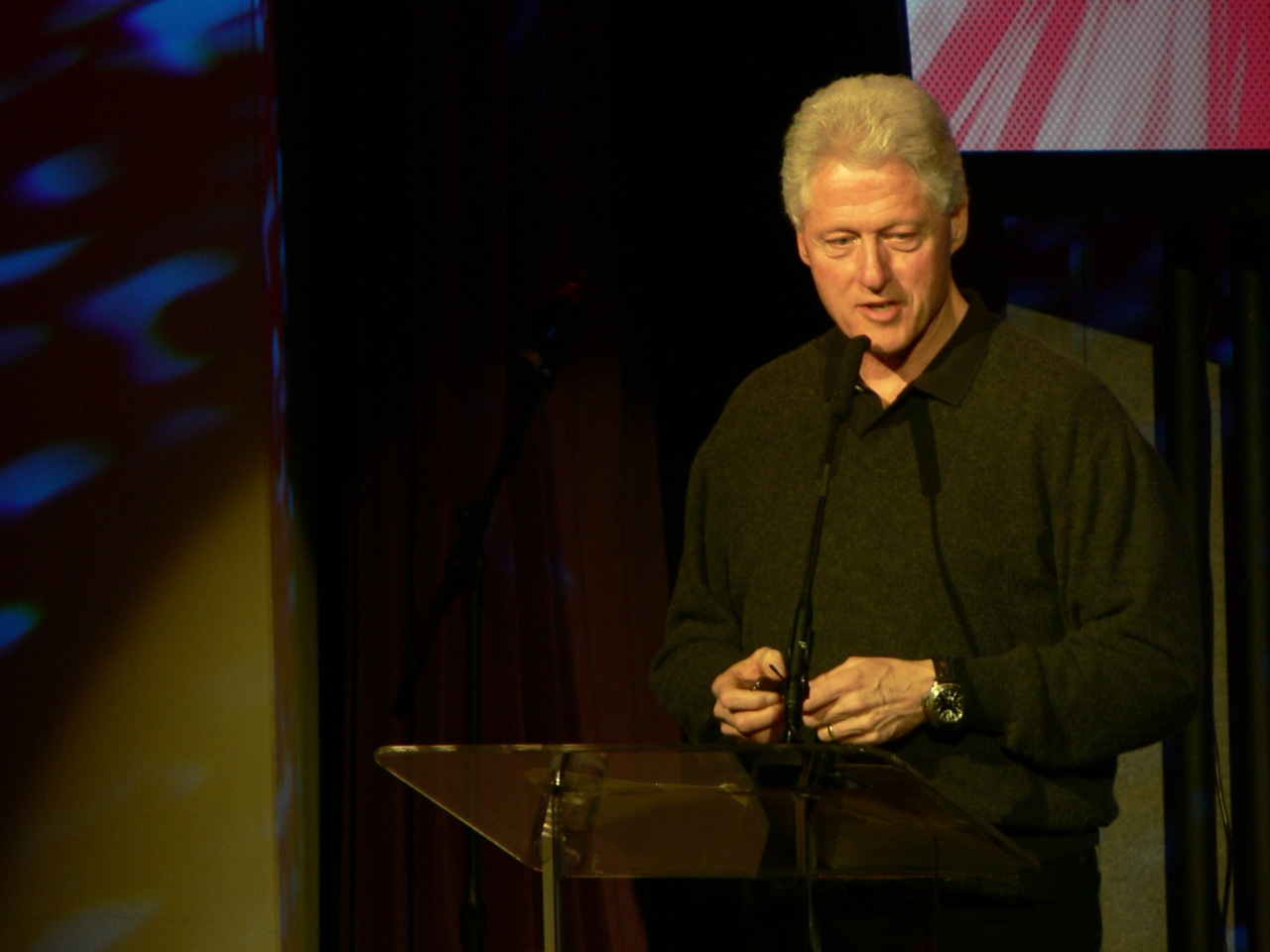 Bill Clinton talking at TED conference 2007. He won TED Prize 2007.